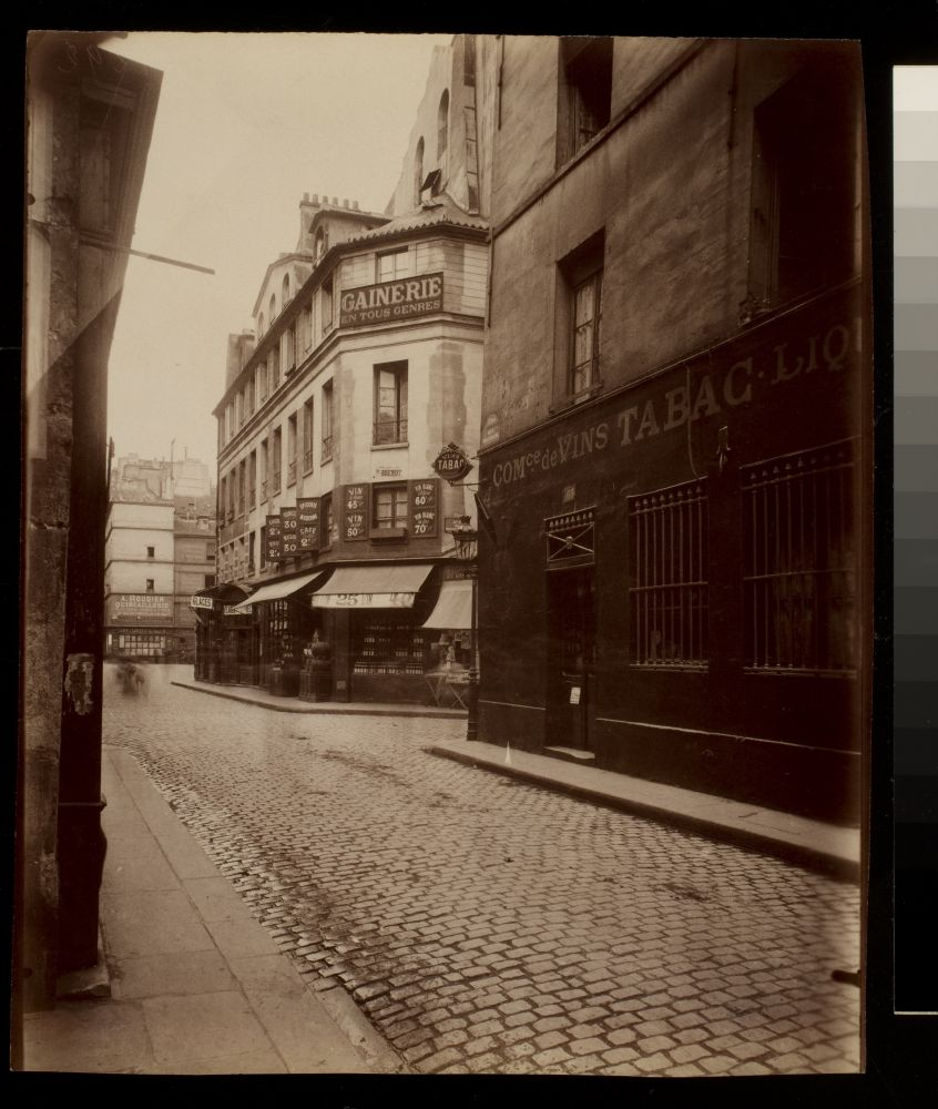 Digital Accession Number: 1981:0951:0054.0001 Maker: Eugène Atget (French, 1857-1927) Title: La Rue Beaubourg - et la maison ou ont en lieu le 14 Avril 1834 - les massacres de la Rue Transnonain - Rue Beaubourg - depuis 1851 (IIIe.) Date: 1901 Medium: albumen print Dimensions: 21.8 x 18.0 cm. (trimmed) George Eastman House Collection General – information about the George Eastman House Photography Collection is available at For information on obtaining reproductions go to